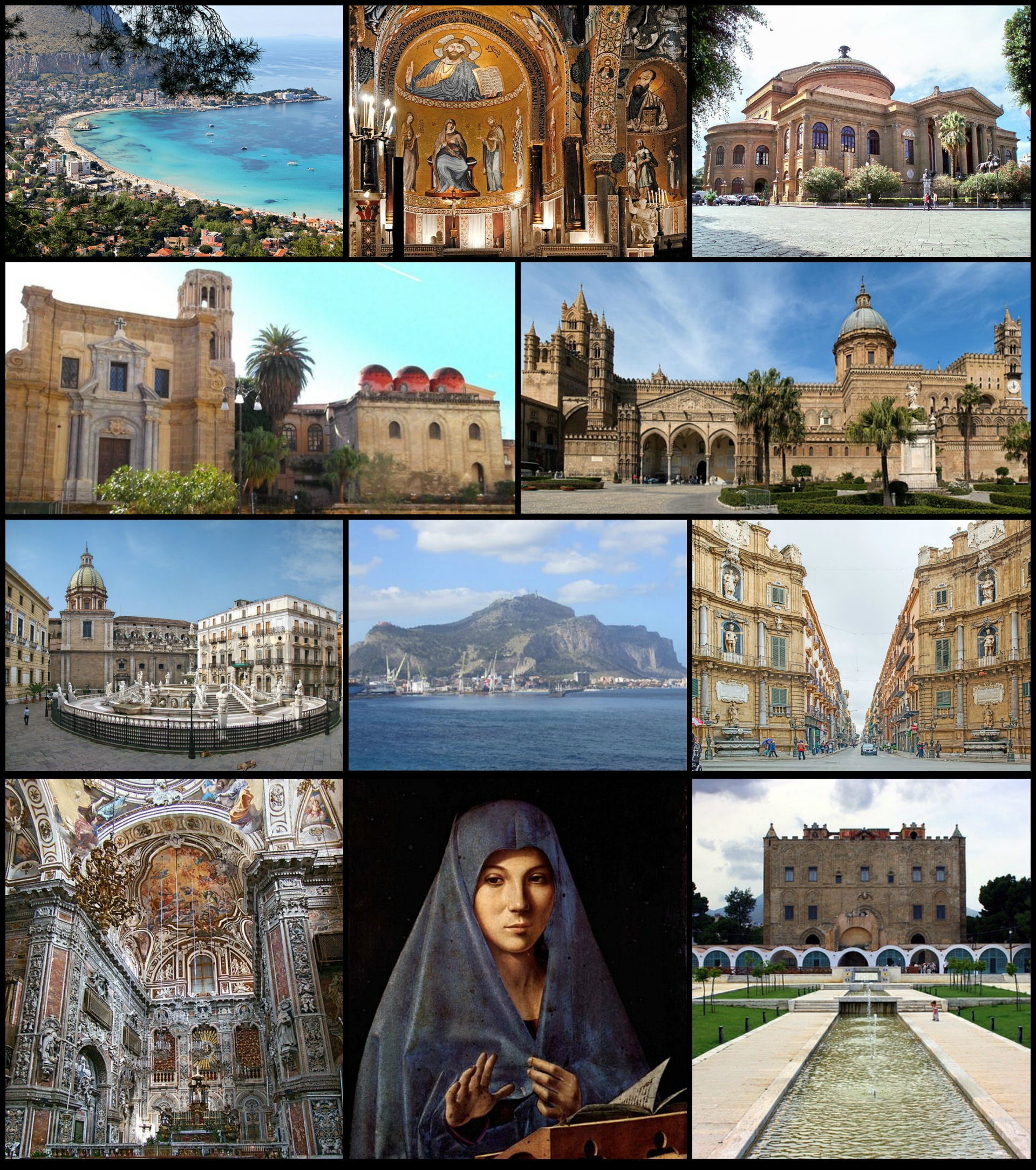 Montage of Palermo. List of images: Mondello, Cappella Palatina, Teatro Massimo, La Martorana and San Cataldo, Palermo Cathedral, Piazza Pretoria, Monte Pellegrino, Quattro Canti, Santa Caterina, Virgin Annunciate of Antonello da Messina (Palazzo Abatellis), La Zisa